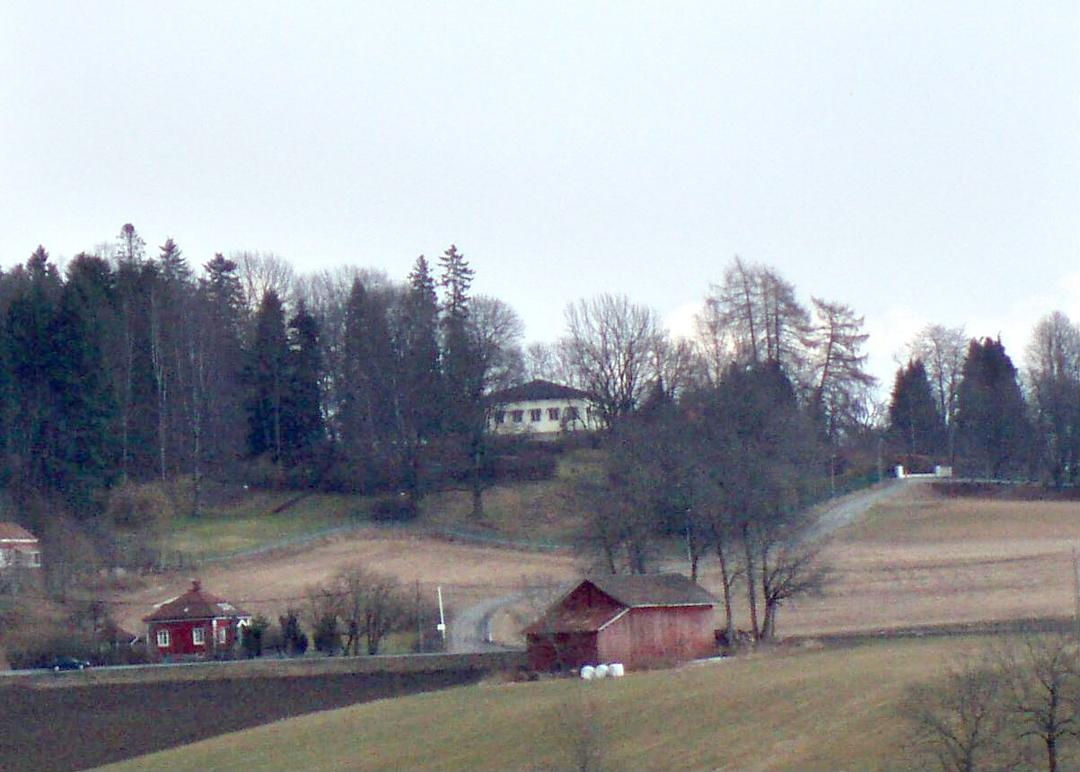 Skaugum, the official residence of Crown Prince Haakon of Norway and of his wife Crown Princess Mette-Marit. Picture is taken from west.